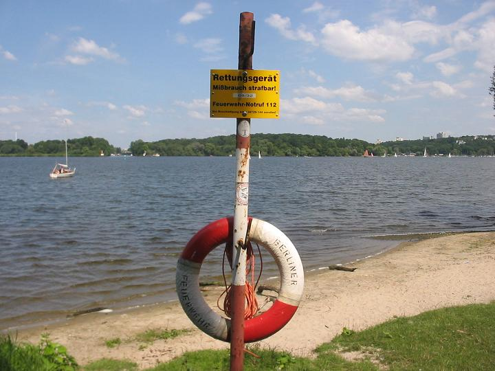 The peak of the Schildhorn, beach. Schildhorn (german for: shieldhorn) is a headland in the river Havel, situated in the protected area Grunewald in the homonymous quarter Grunewald of Berlins borough Charlottenburg-Wilmersdorf, Germany.